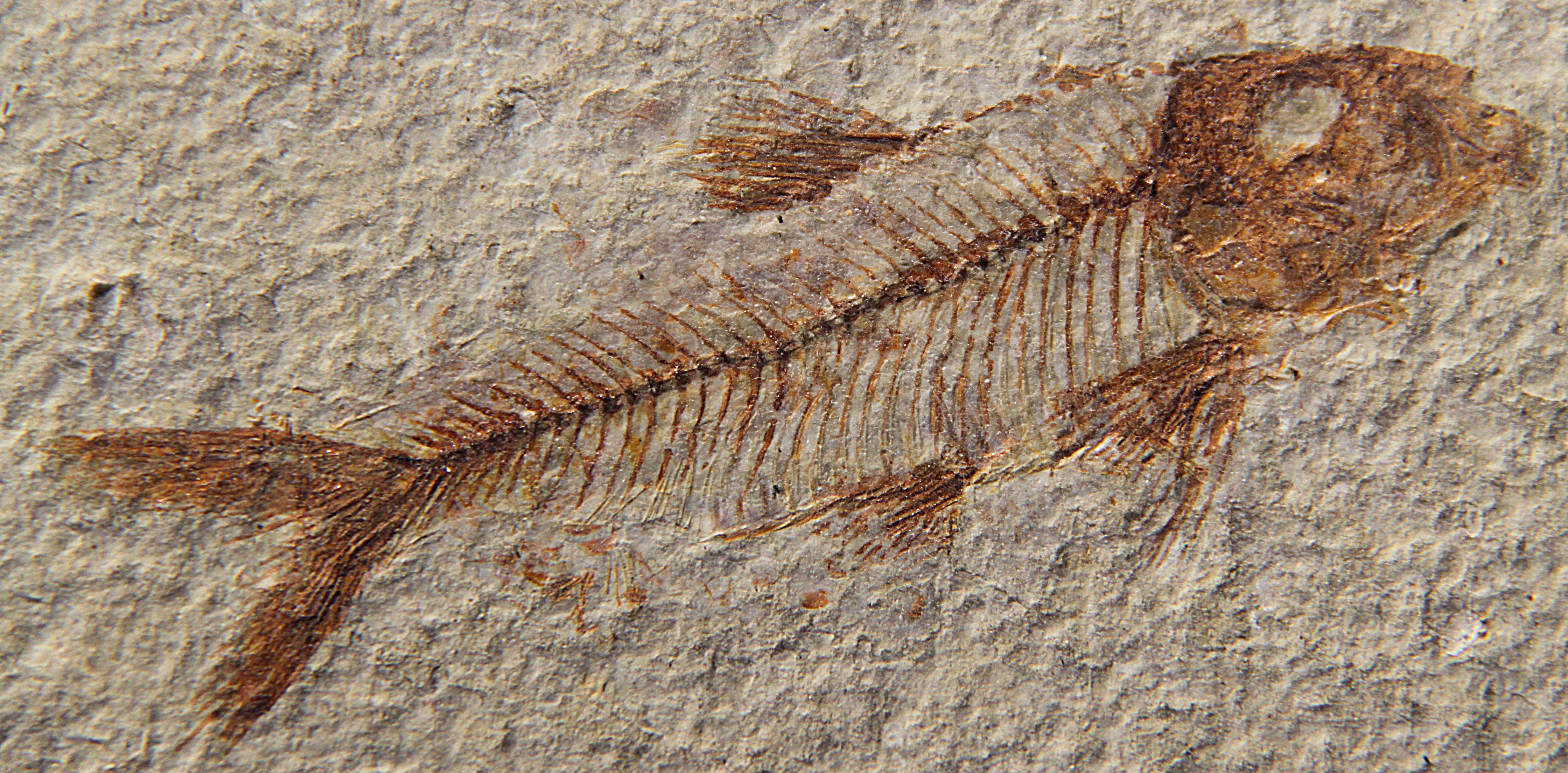 A Knightia eocena fish, Order Cupleiformes, Family Cupleidae, 79mm along the axis, from the Greenriver Formation Wyoming, USA, from the Eocene